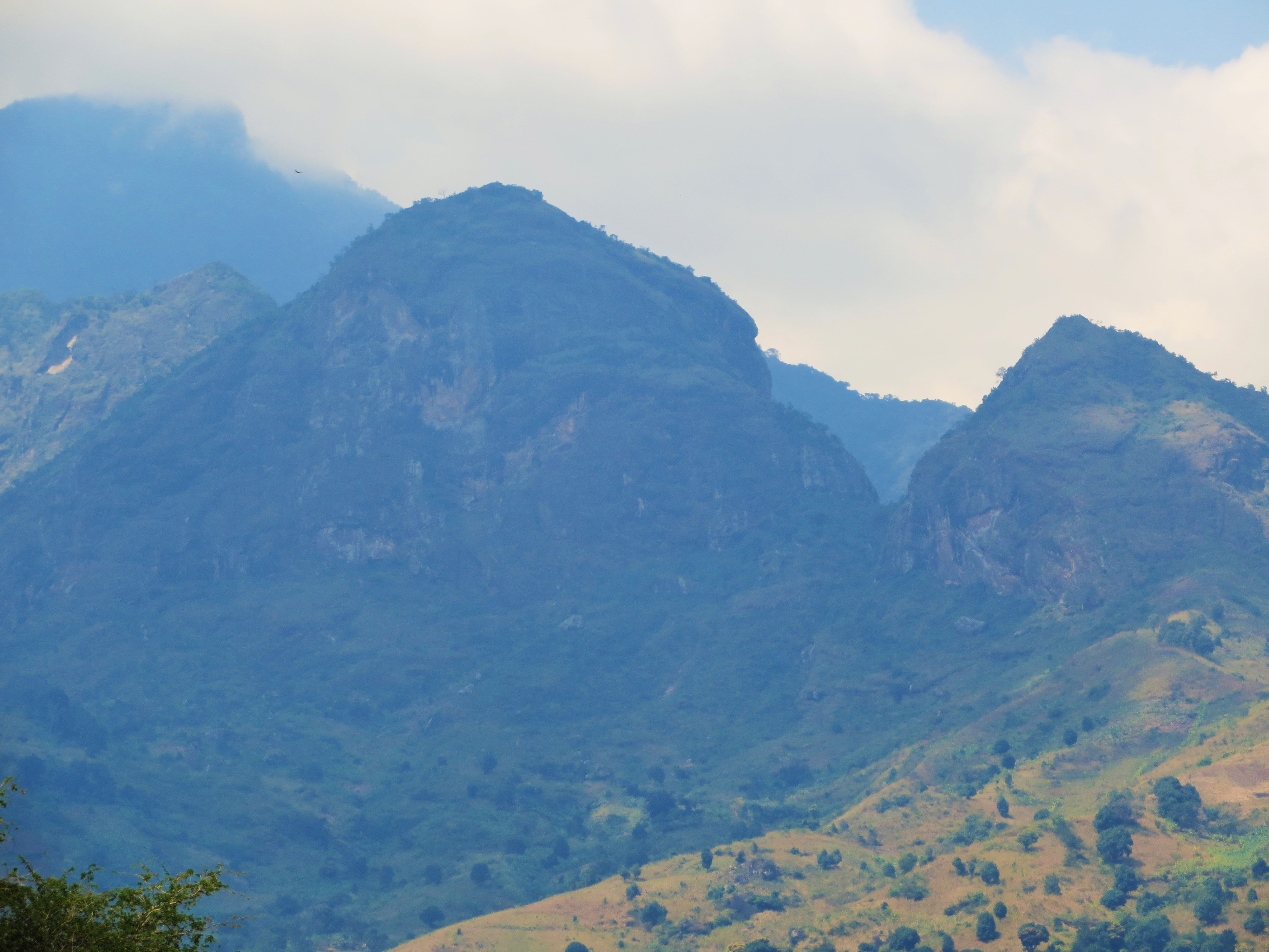 Uluguru Mountains in the background of Morogoro city. This photo has been taken by Prof.Chen Hualin